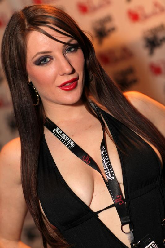 Samantha Bentley at AEE Expo in Las Vegas. Photos from the 2013 AVN Expo & AVN Awards held at the at the Hard Rock Hotel & Casino in Las Vegas. Please provide photographer credit when using, tweeting, etc... Photo by Michael Dorausch This photo is licensed under a Creative Commons license. If you use this photo within the terms of the license or make special arrangements to use the photo, please list the photo credit as "Michael Dorausch" and link the credit to .